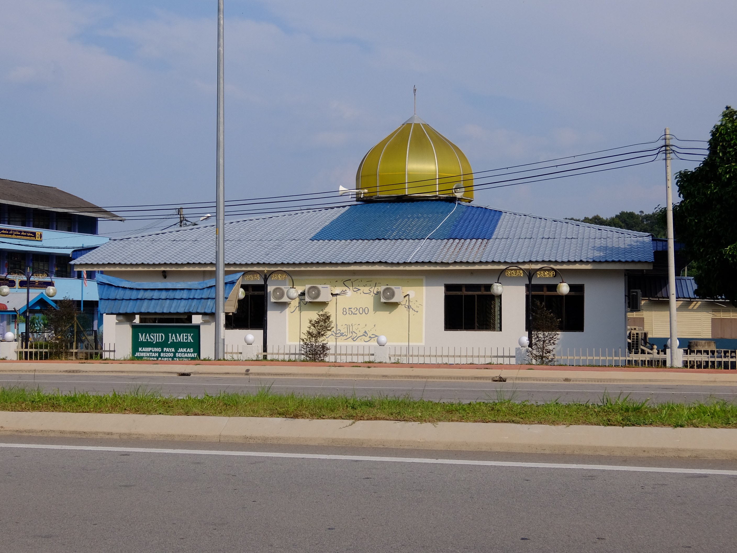 Paya Jakas Village Jamek Mosque, Jementah, Segamat, Johor, Malaysia